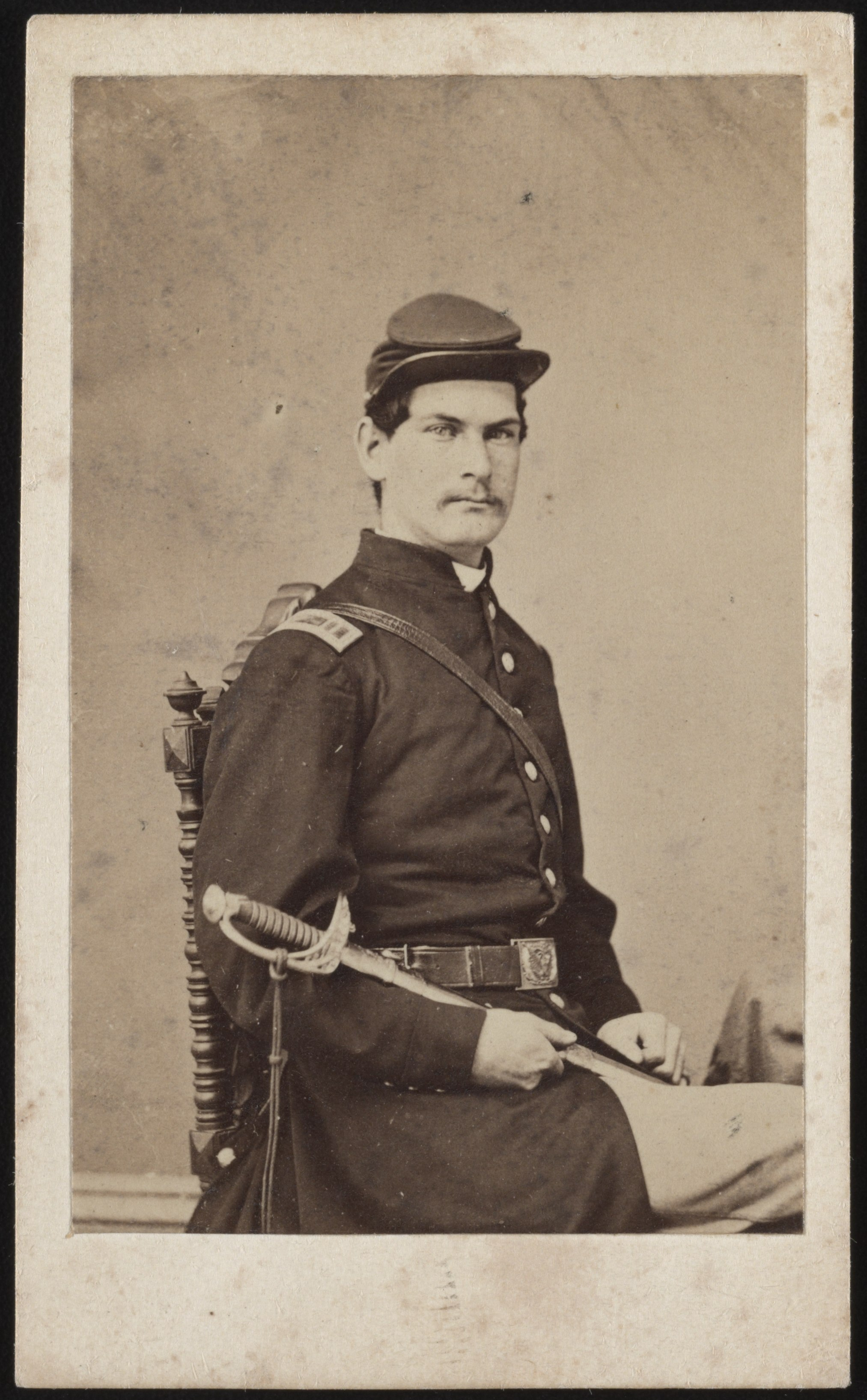 Title: Captain Isaac Nicoll of Co. G, 124th New York Infantry Regiment, in uniform with sword] / Lawrence, Newburgh, N.Y Abstract/medium: 1 photograph : albumen print on card mount ; mount 11 x 7 cm (carte de visite format)